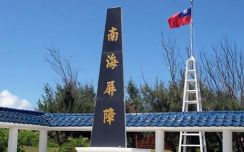 Monument of South China Sea erected by Ministry of the Interior, Republic of China.中文（台灣）: 中華民國內政部在東沙島設立的「南海屏障」紀念碑。